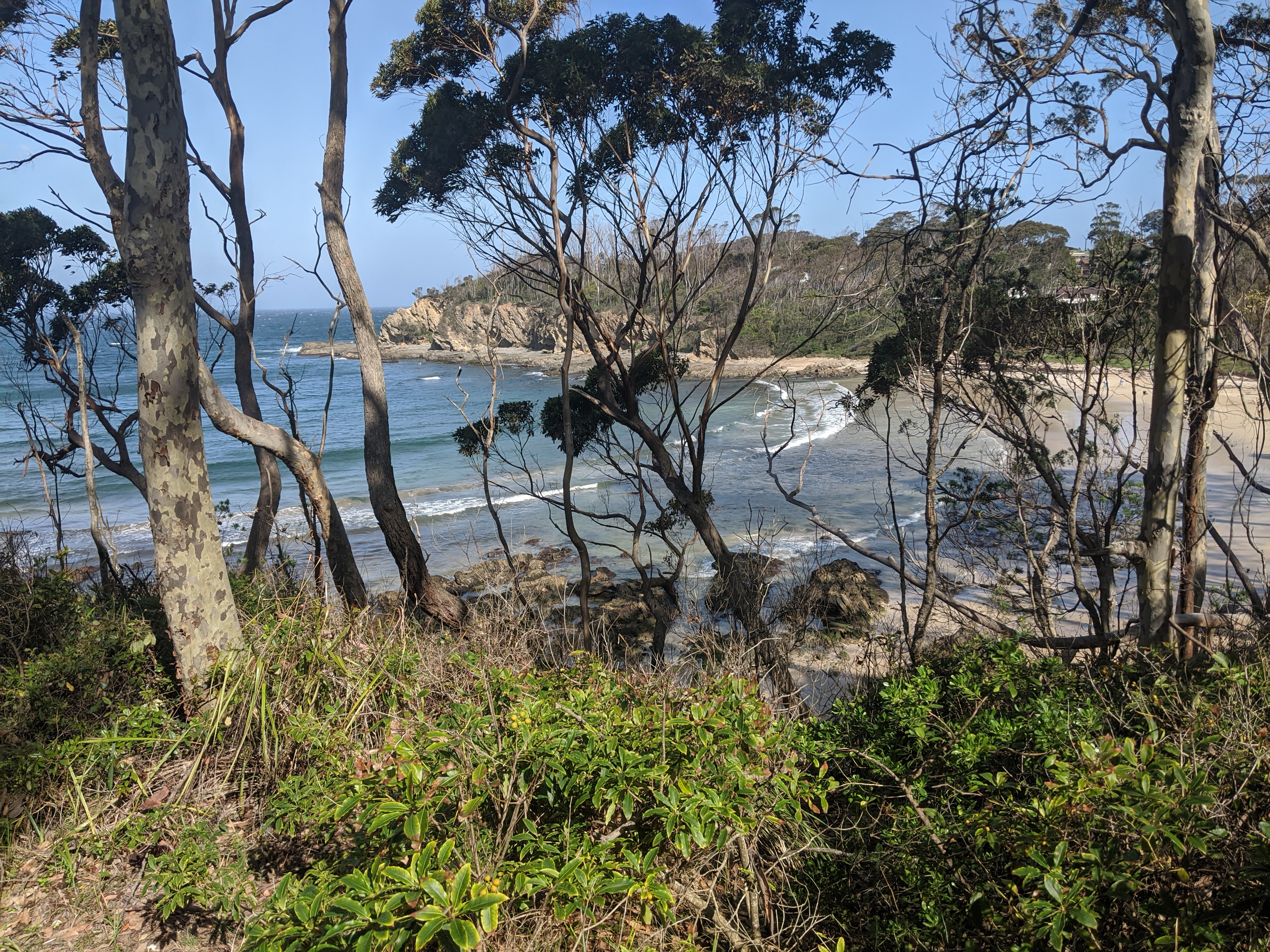 Lilli Pilli Beach, Lilli Pilli, New South Wales, 2020